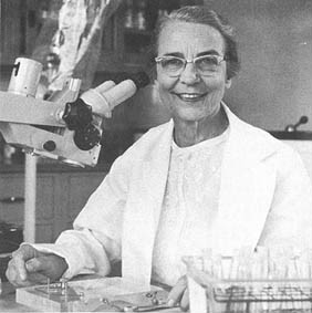 Dr. Evelyn Anderson - The Exobiology Division of the Ames Life Sciences Directorate. The Exobiology Division was headed by Richard Young, who had started the life-science activity at Ames in February 1961. The division in 1965 was comprised of a Chemical Evolution Branch directed by Cyril Ponnamperuma, a Biological Adaptation Branch directed by Robert Painter, and a Life Detection Systems Branch directed by Vance Oyama. The work of the division was of a very basic nature. Most of it was conducted in-house, none with human subjects, and little with animal subjects other than micro-organisms, eggs, and frogs. Indeed the evidence of life that was being sought was so subtle as to be easily obscured by the bacterial "filth" with which all humans and other animals on earth are laden. The experimental work of the Exobiology Division was mostly performed in its own, excellent laboratories though some of it was being carried out in space through experiments placed on space vehicles. Experiments devised by Richard Young and his colleagues were scheduled for inclusion in Gemini flights and the Biosatellite program.